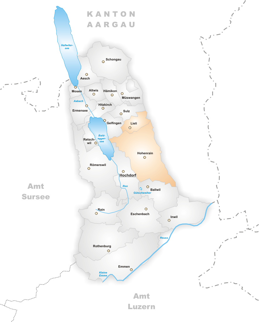 Municipalities of District Hochdorf until 2006